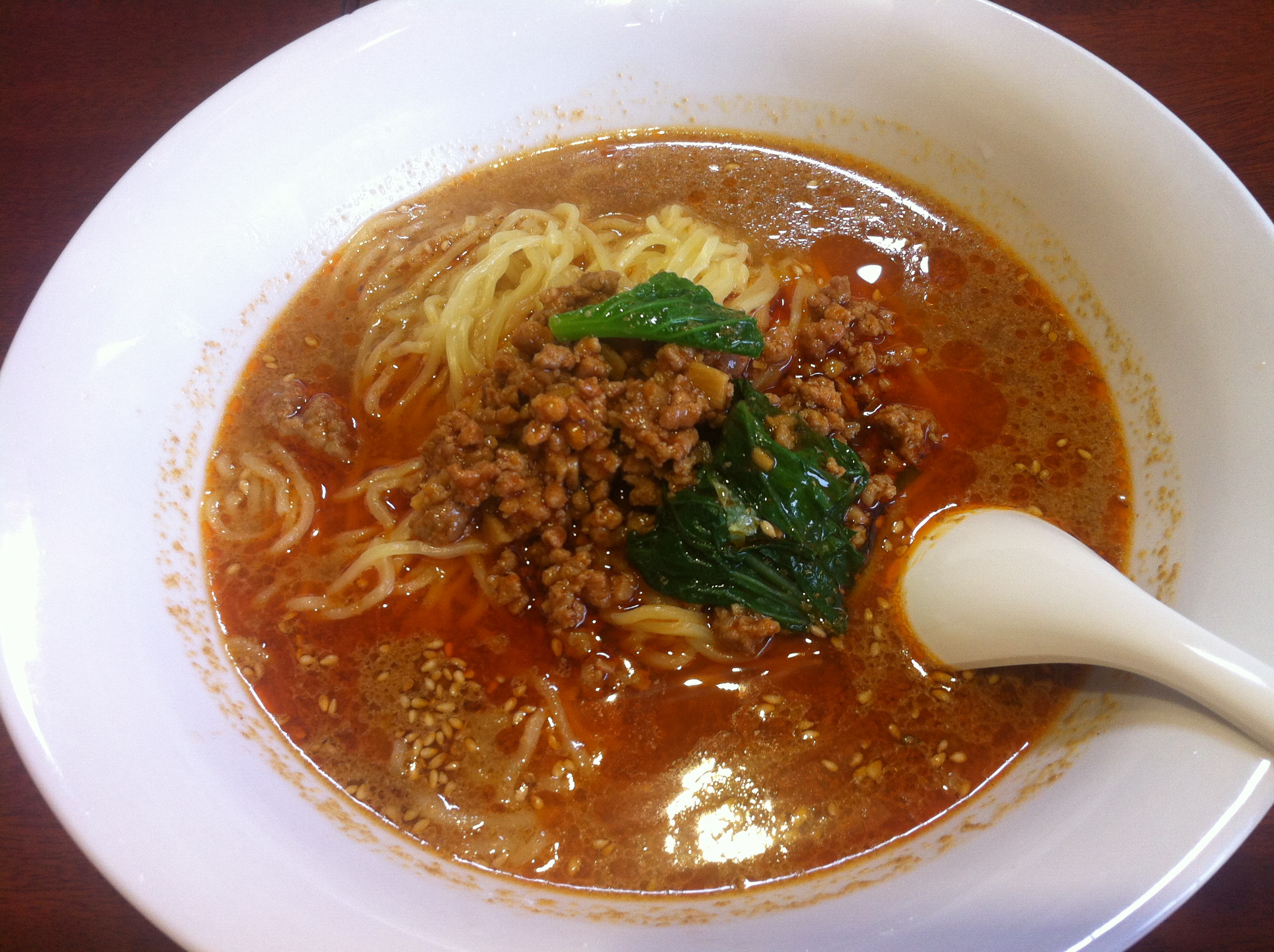 日本で食べた担々麺 Dandan noodles (tantanmen) bought in Japan